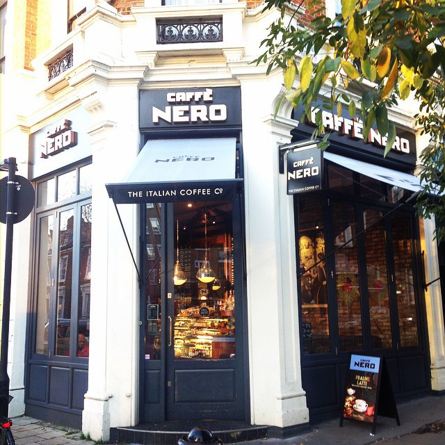 Caffè Nero, 18 Clifton Road, London, W9 1SS